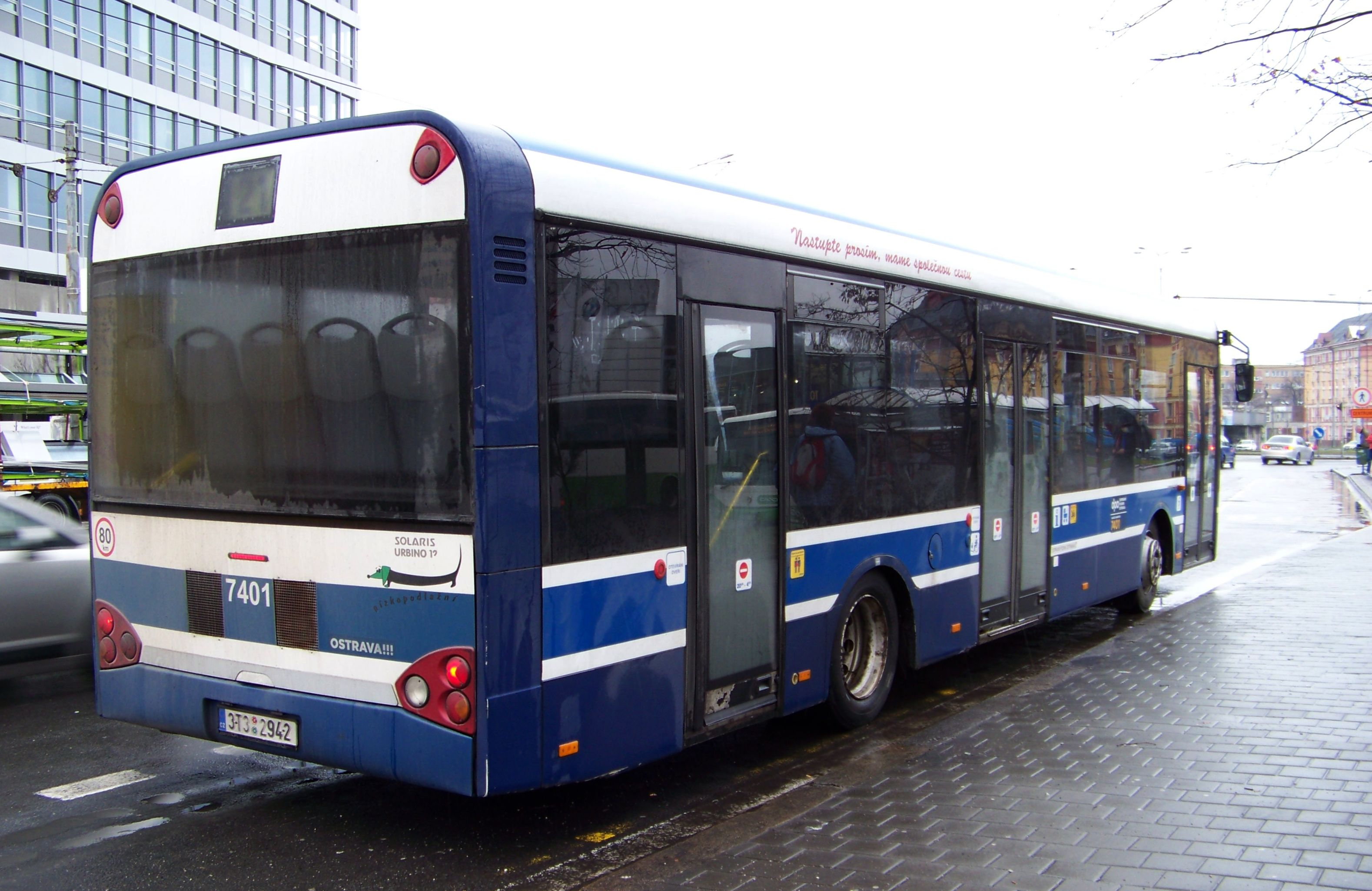 Ostrava-Moravská Ostrava, Moravian-Silesian Region, the Czech Republic. Vítkovická street, the Central Bus Station, Solaris Urbino 12 LE (#7401, reg. 3T3 2942, built 2004) of DPO.